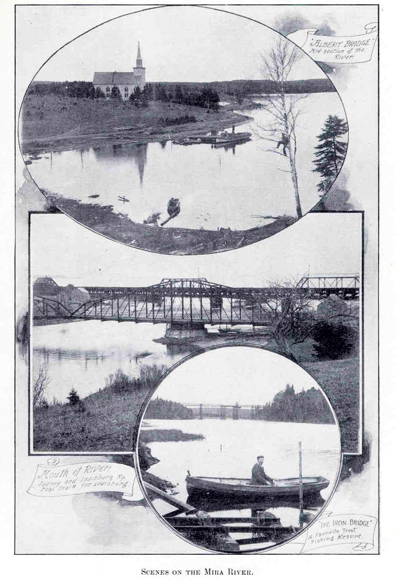 Scenes on the Mira River Subject: Rivers--Nova Scotia, Mira River (Nova Scotia), Railroad bridges--Nova Scotia Geographic Subject: Canada--Nova Scotia--Cape Breton Island Tag: Limnology